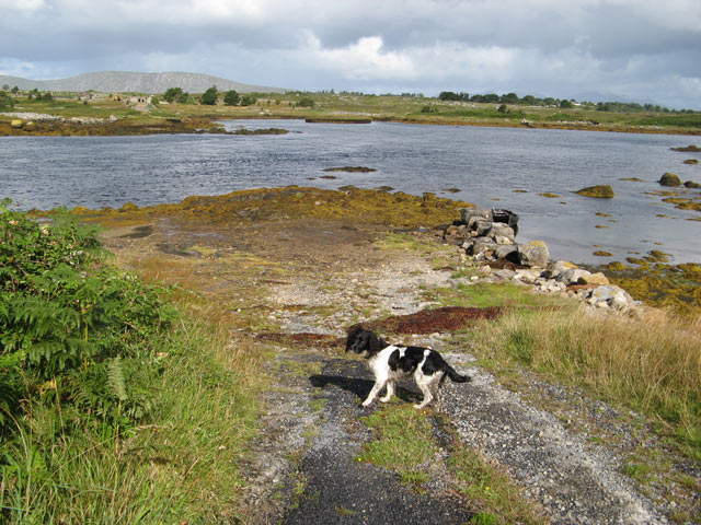 Slipway at the end of the road, near to Kilbrickan and Ros Muc, Galway, Ireland. This road ends rather quietly at a slipway with a fine view over this long inlet from Camus Bay to Snaumh Bo and Dunmanus Island. In the distance the northern end of the long ridge of Cnoc Mordain L8637 is prominent.